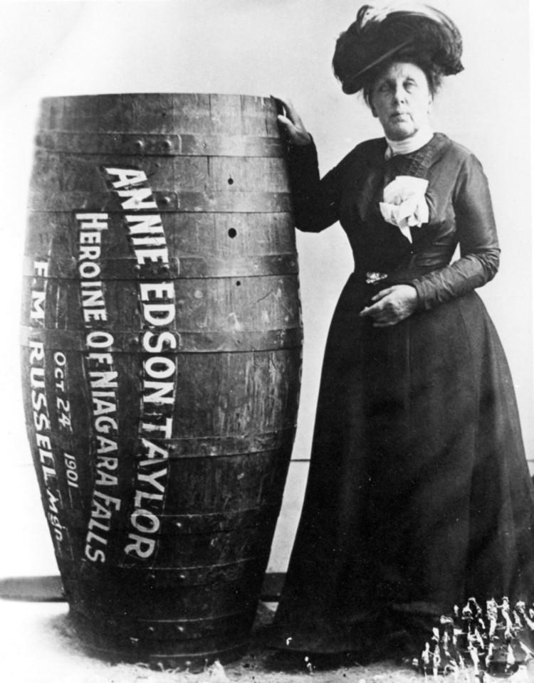 Photograph of Annie Edson Taylor, the first person who'd survived a trip over Niagara Falls in a barrel on 24 October 1901.